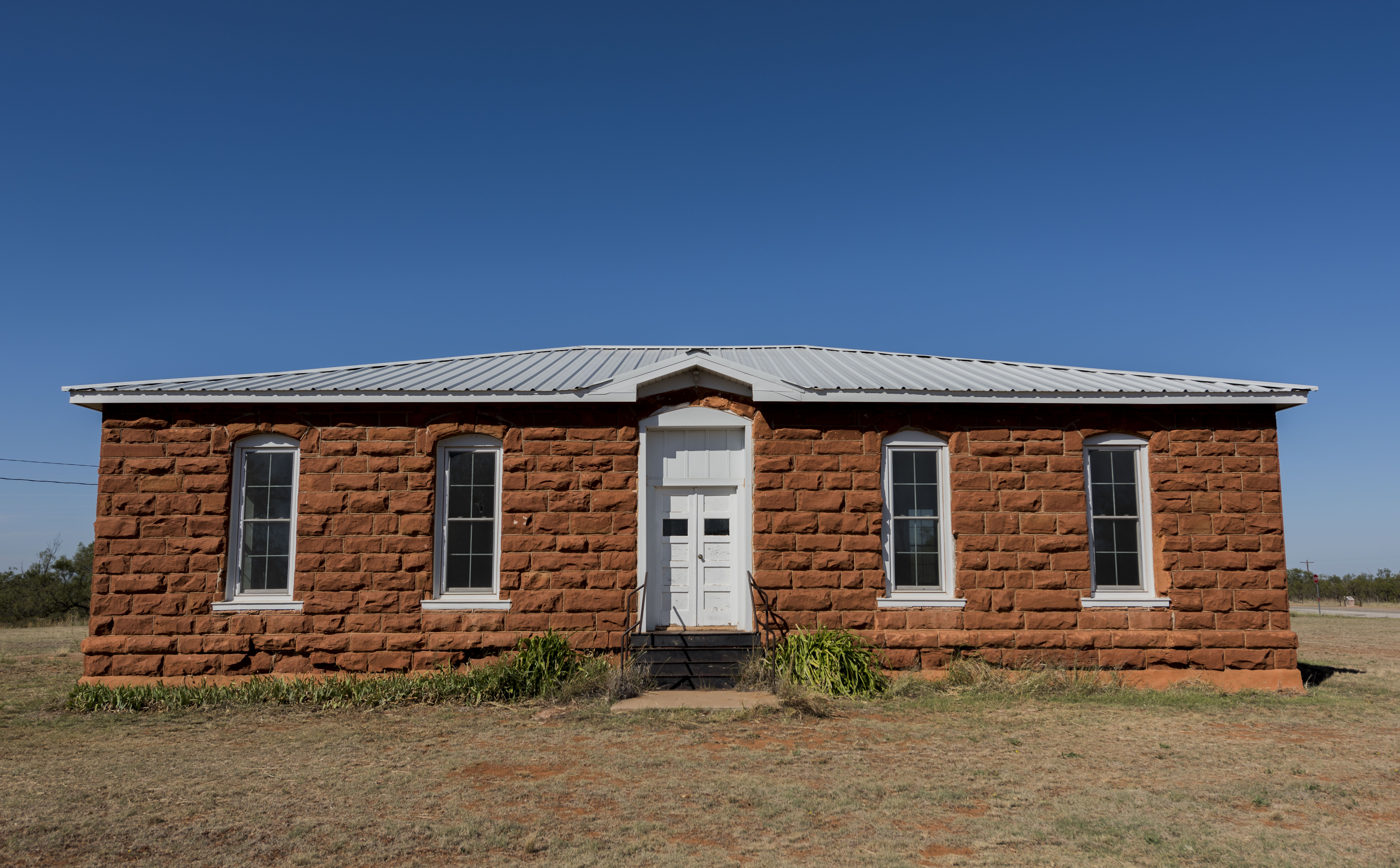 Photograph of the original Kent County, Texas courthouse taken in October 2019.